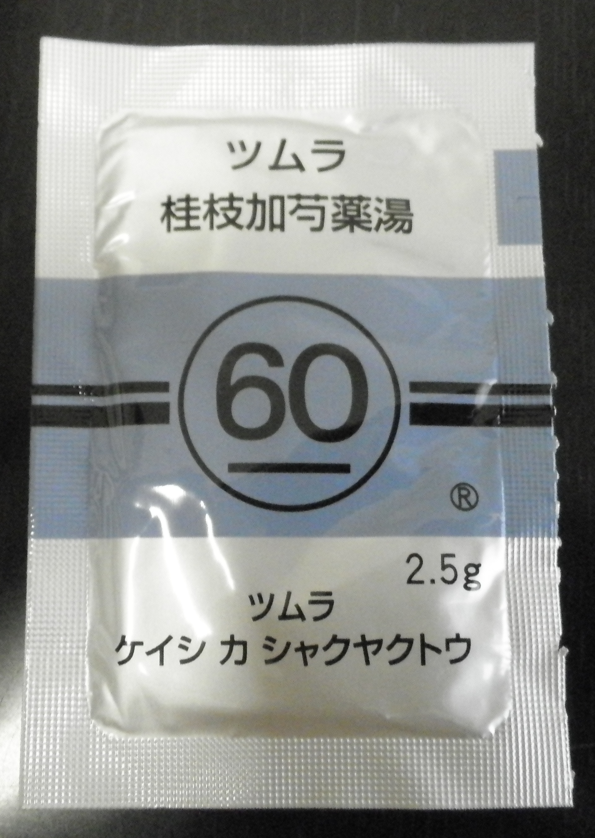 Chinese medicine whose name is keishikasyakuyakutou